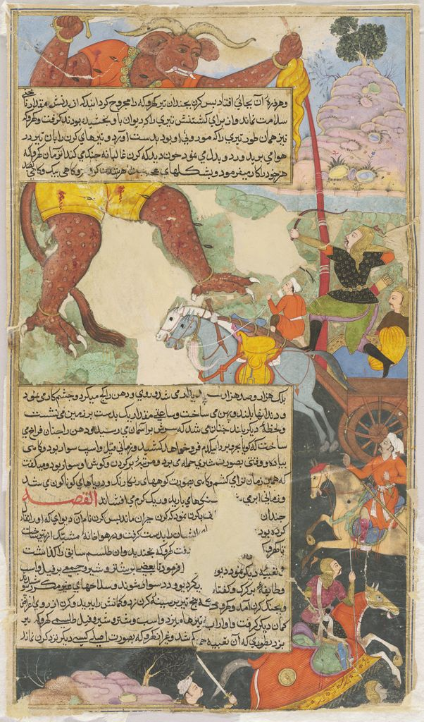 Unknown Karna Attacks Ghatotkacha (painting, verso; text, recto), folio from the Mahabharata, c. 1616-1617 Series/Book Title: Mahabharata Painting With Text , Manuscript Page Indian , 17th century Mughal period, 932-1274/1526-1858 Creation Place: India Ink, opaque watercolor and gold on paper 36.8 x 20.6 cm (14 1/2 x 8 1/8 in.) Harvard Art Museums/Arthur M. Sackler Museum, Gift of John Goelet , 1960.51 Department of Islamic & Later Indian Art , Division of Asian and Mediterranean Art This record was created from historic documentation and may not have been reviewed by a curator; it may be inaccurate or incomplete. Our records are frequently revised and enhanced. Please contact the curatorial department listed above for more information.